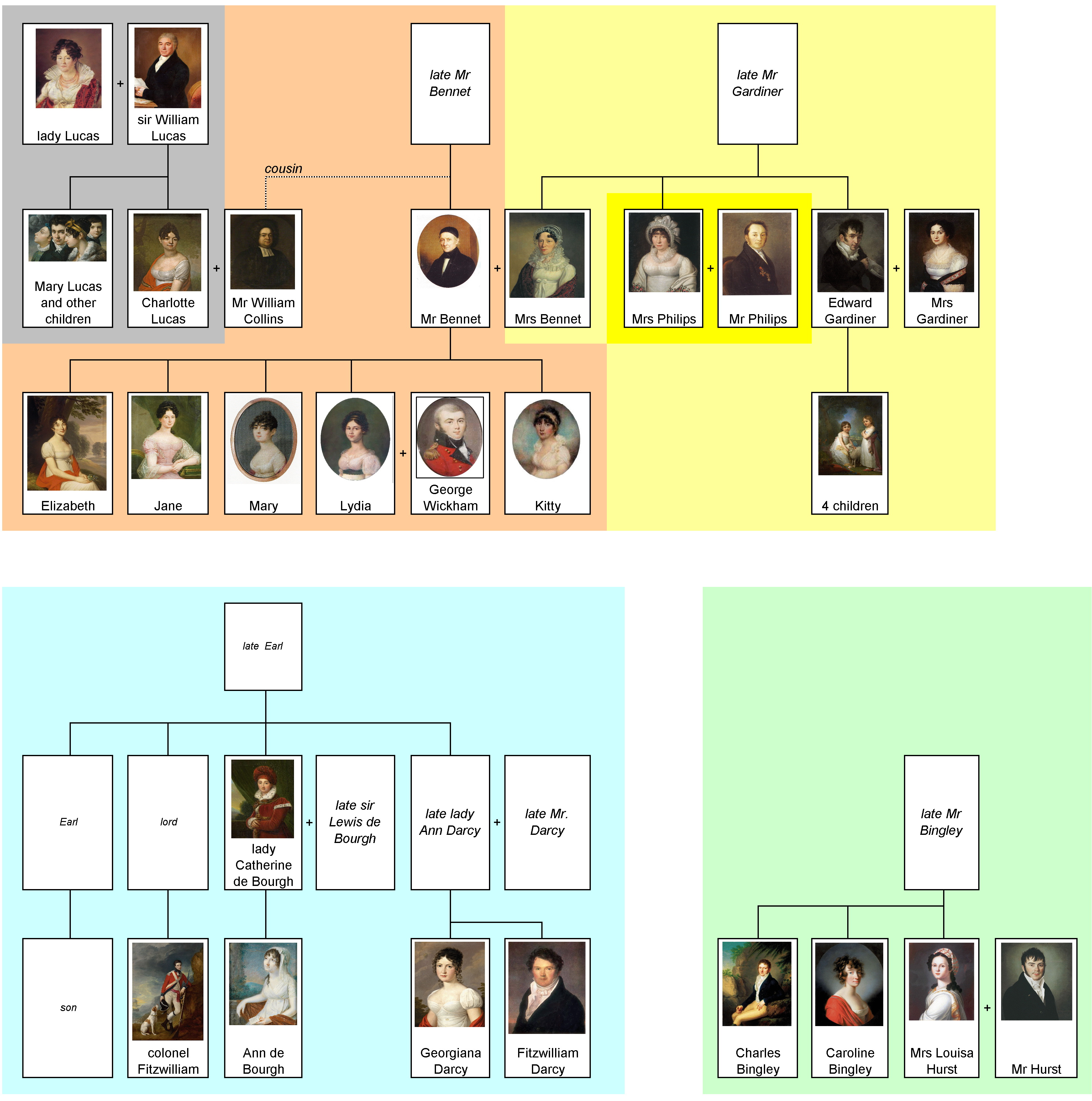 Pride and Prejudice - family tree EN (ill) by shakko